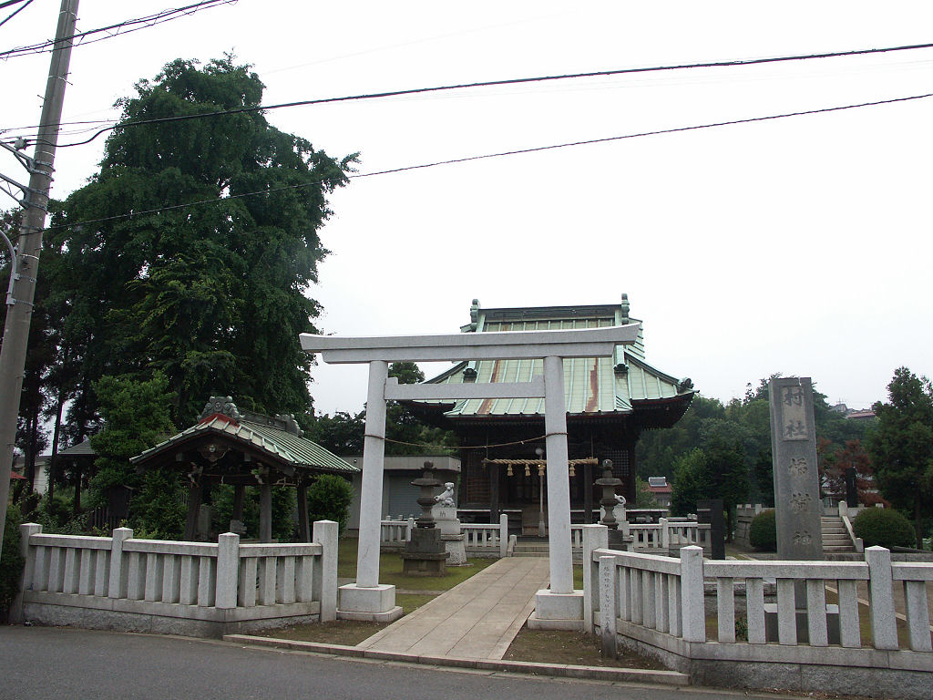 Tachibana-jinjya (The shrine of Shibokuchi, Tachibana). Place: Shibokuchi Takatsu Kawasaki Kanagawa, Japan.